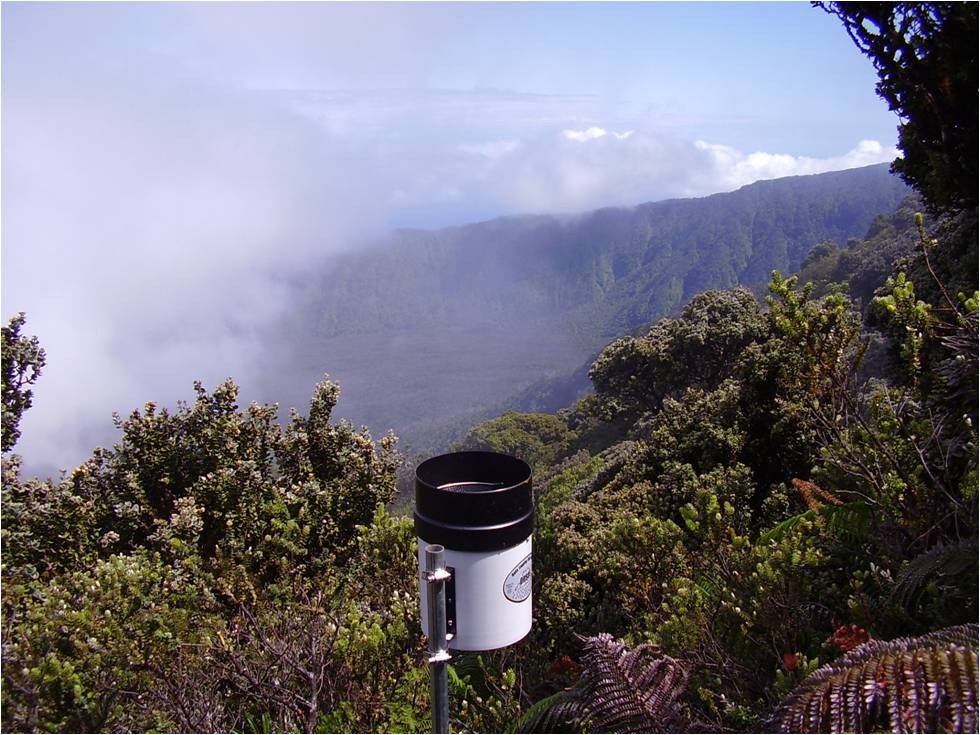 Photo overlooking the Big Bog, from up on a ridge